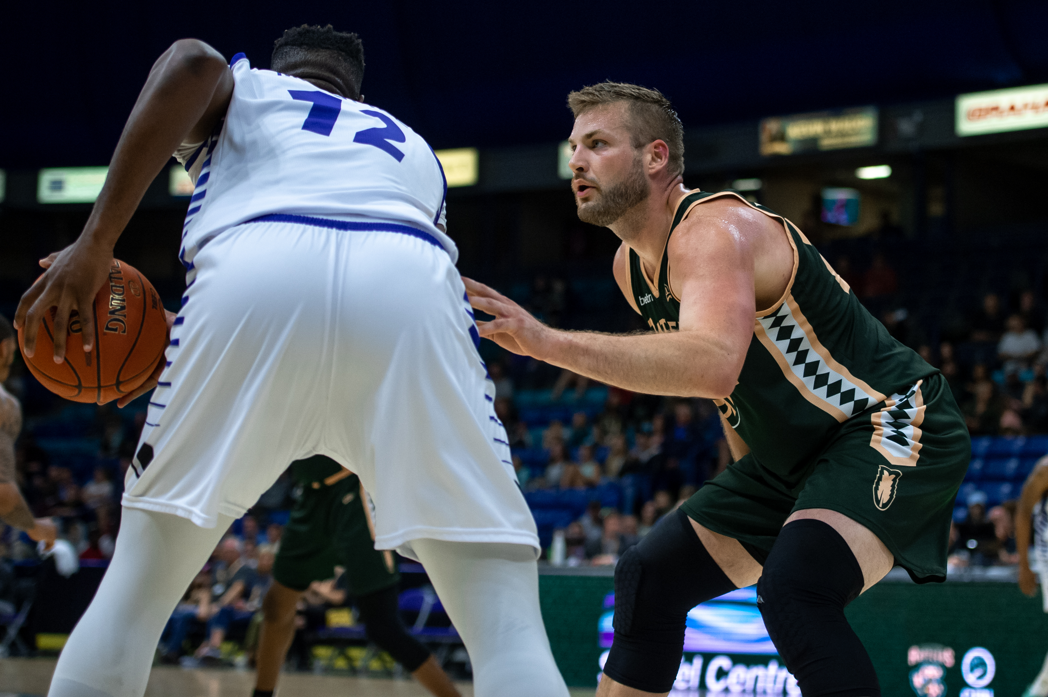 Posthumus with the Rattlers in 2019.